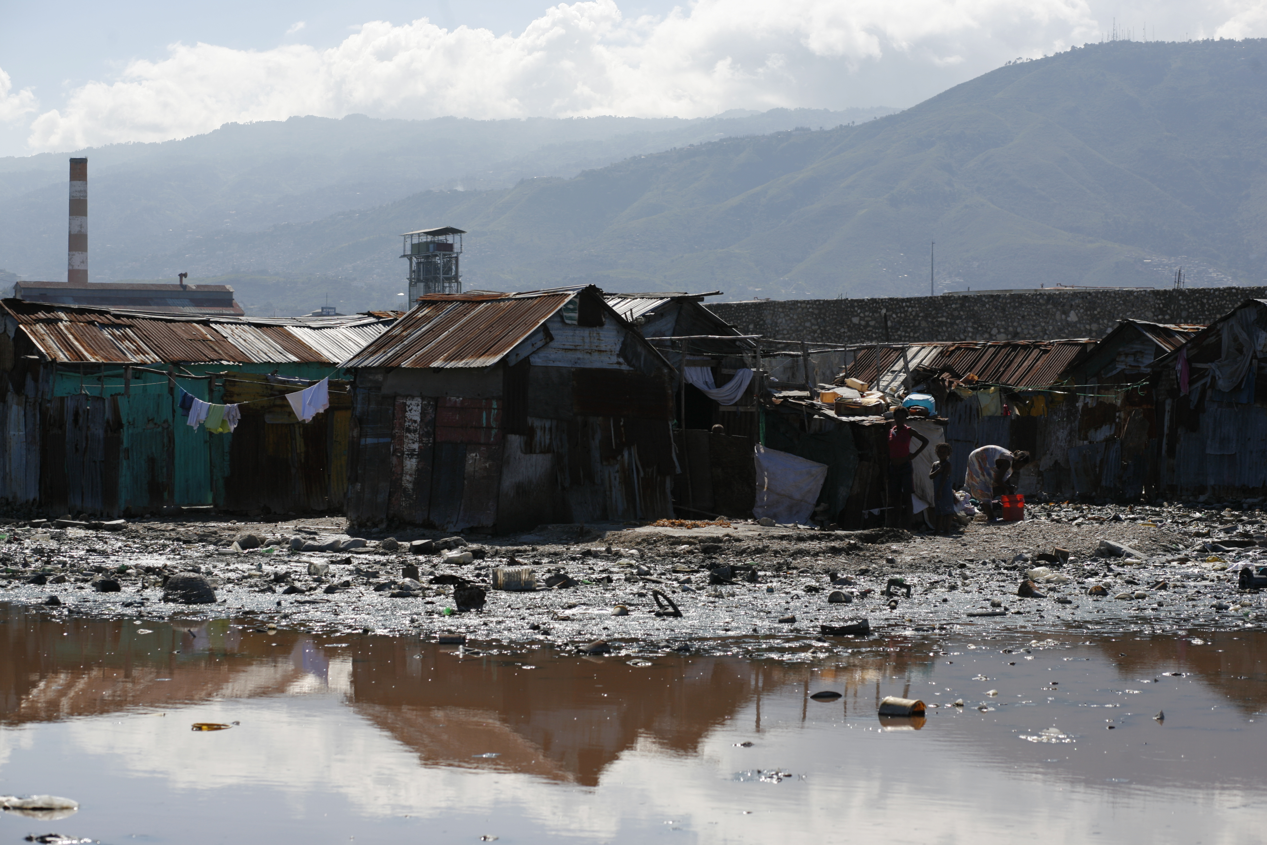 Cite Soleil (Haiti), the shacks built on a rubbish dump